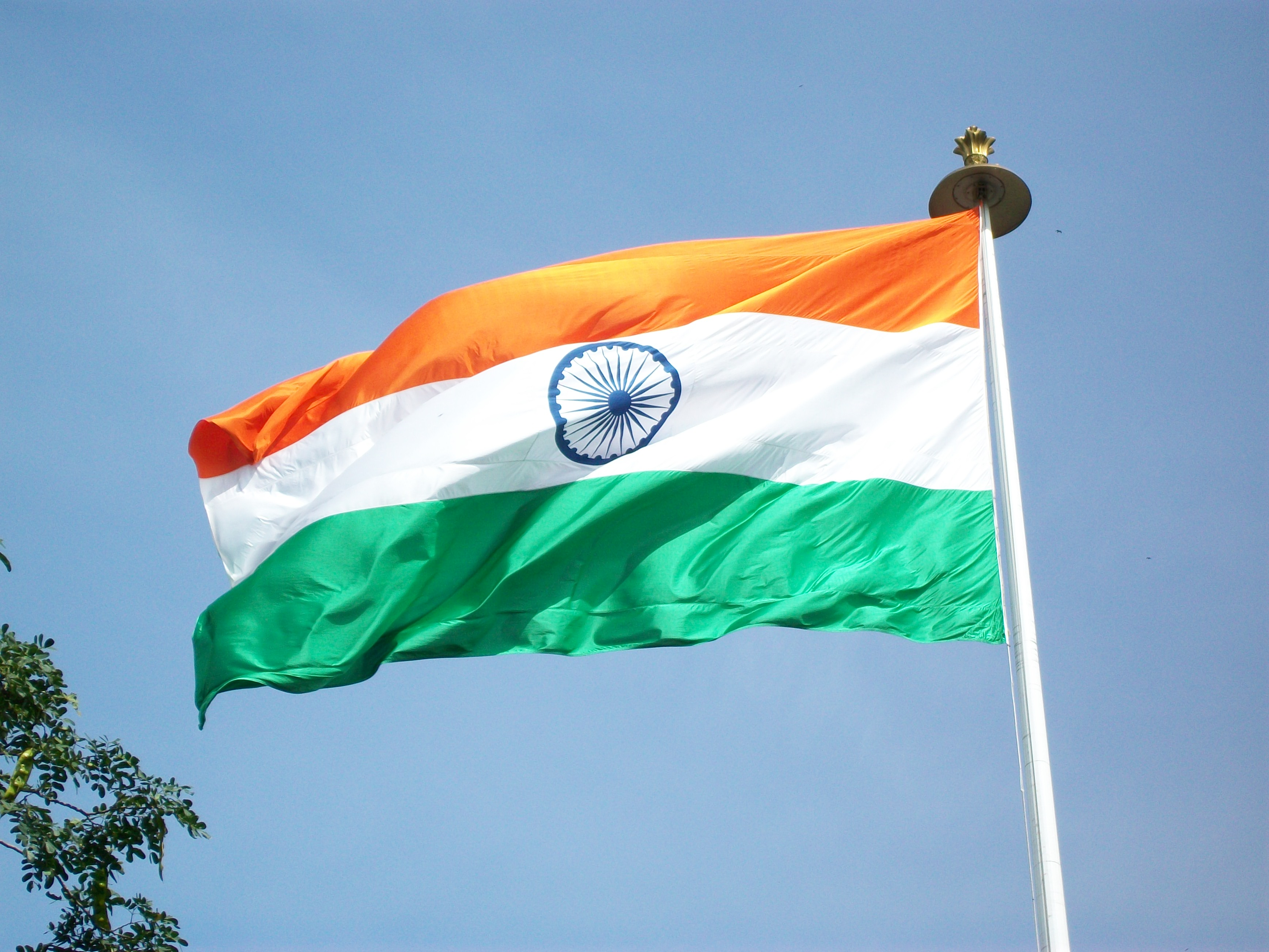 Nation War Memorial indian flag in pune